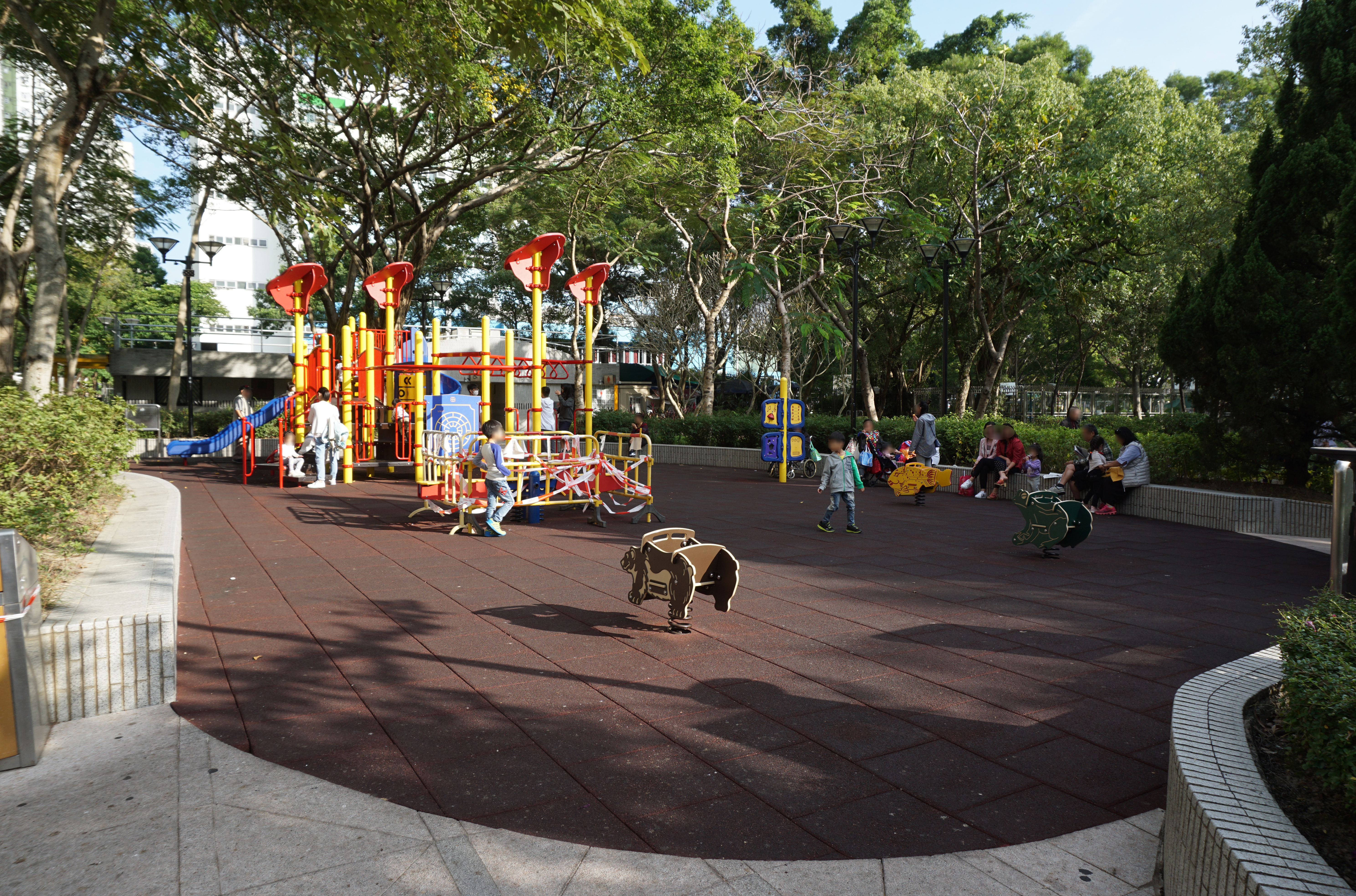 Old Market Playground in Tai Po, Hong Kong.